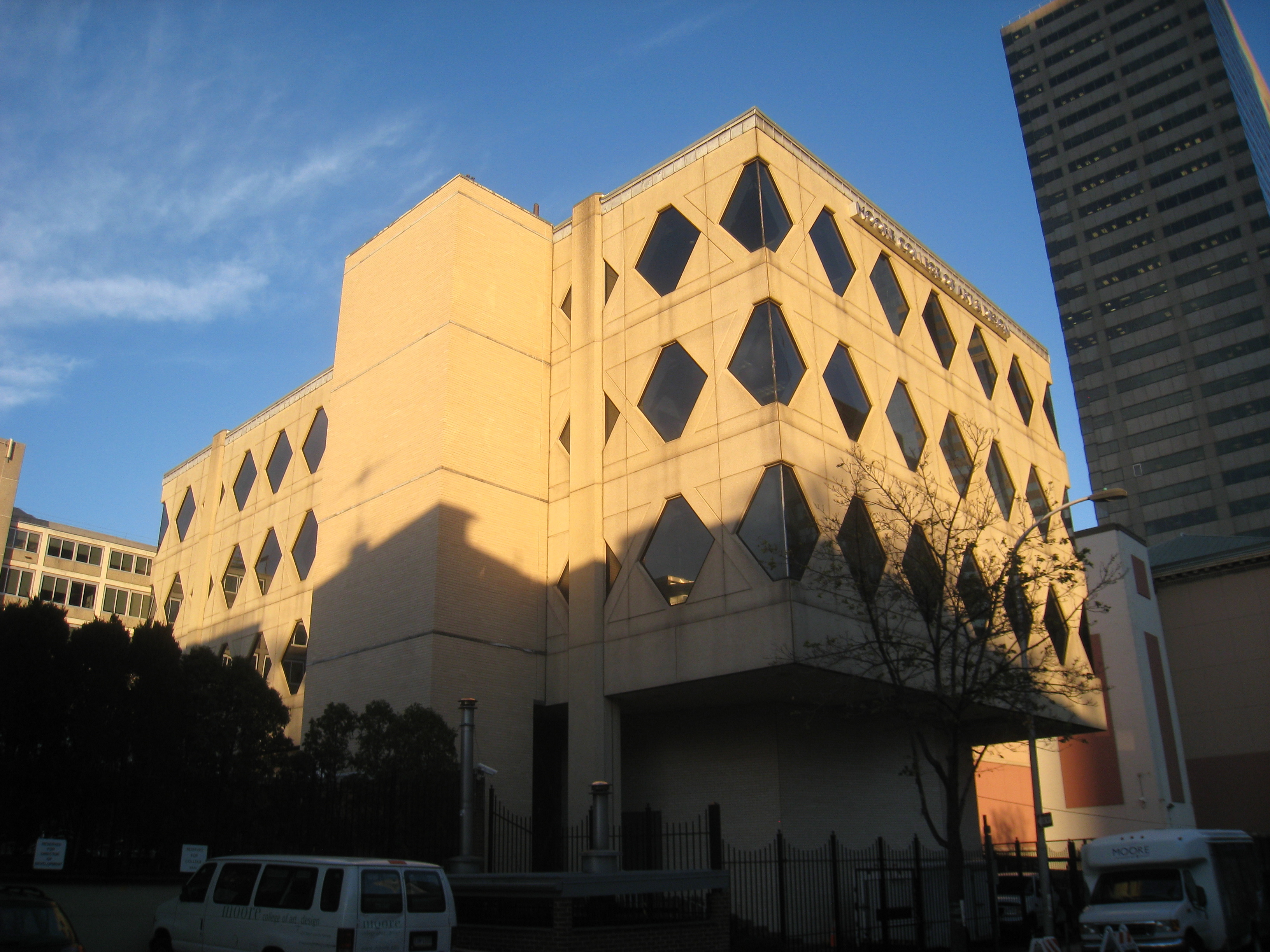 Penelope Wilson Hall, Moore College of Art & Design, 1942 Cherry Street, Philadelphia, Pennsylvania, USA.